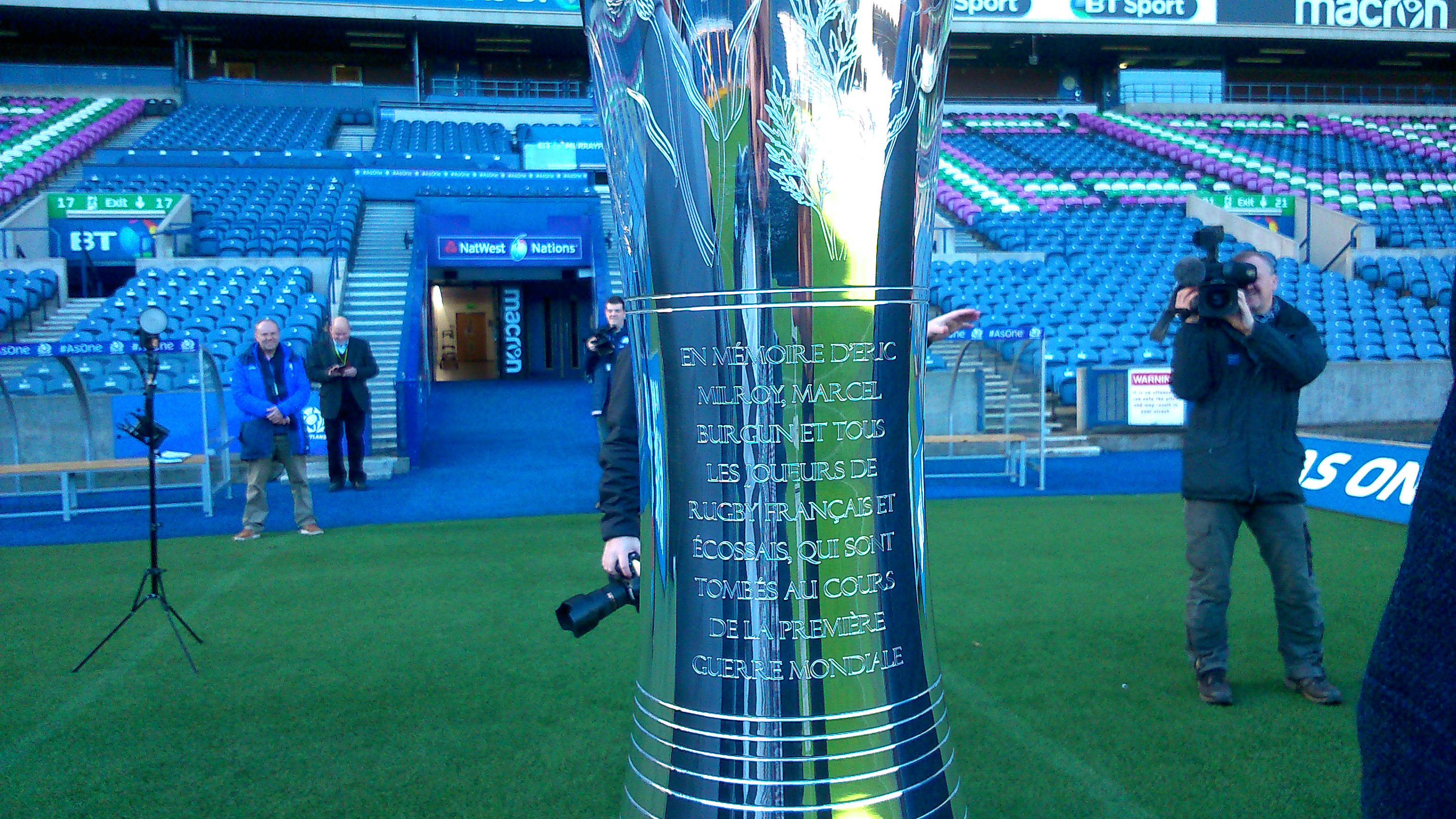 inauguration du trophée Auld Alliance à Murrayfield BT